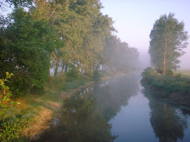 The river Nuthe in Germany.